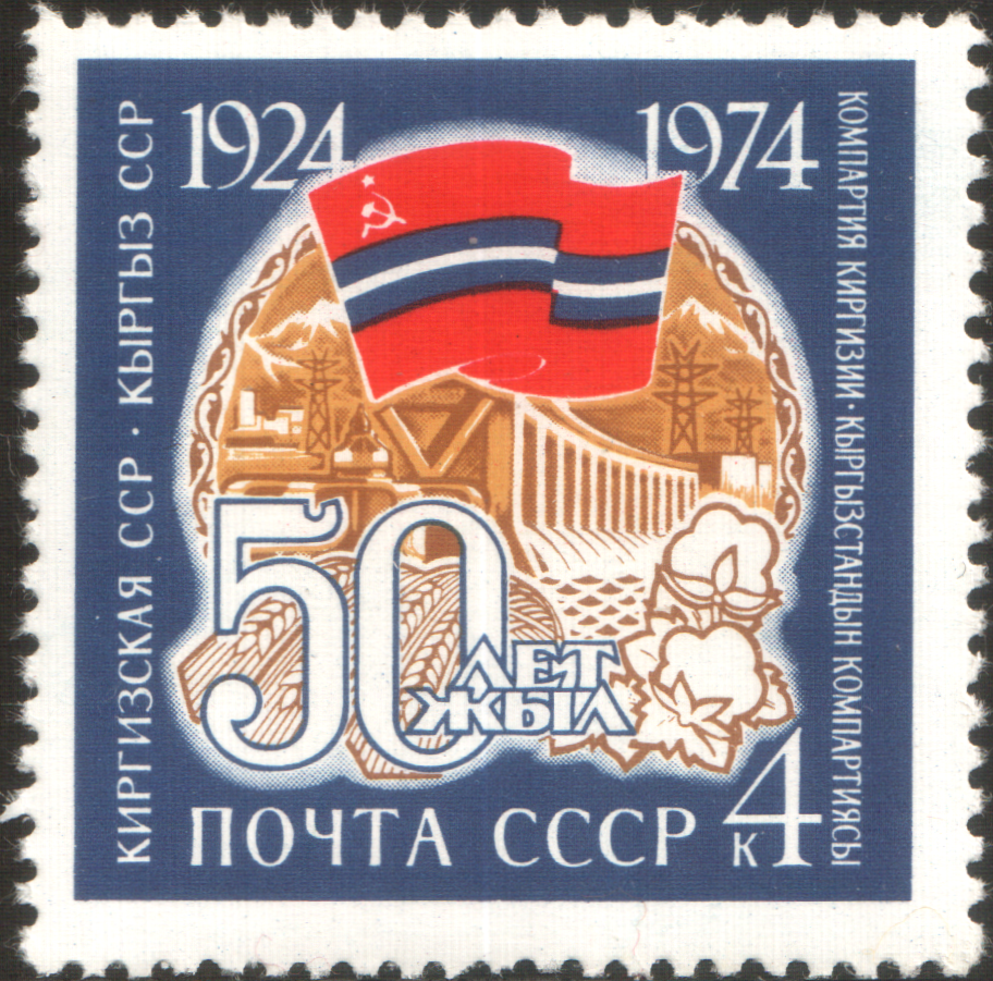 USSR stamp: Kirghiz Soviet Socialist Republic (Established on 1924.10.14). Series: 50th Anniversary of the Union Republics of the Soviet Union and Their Communist Parties